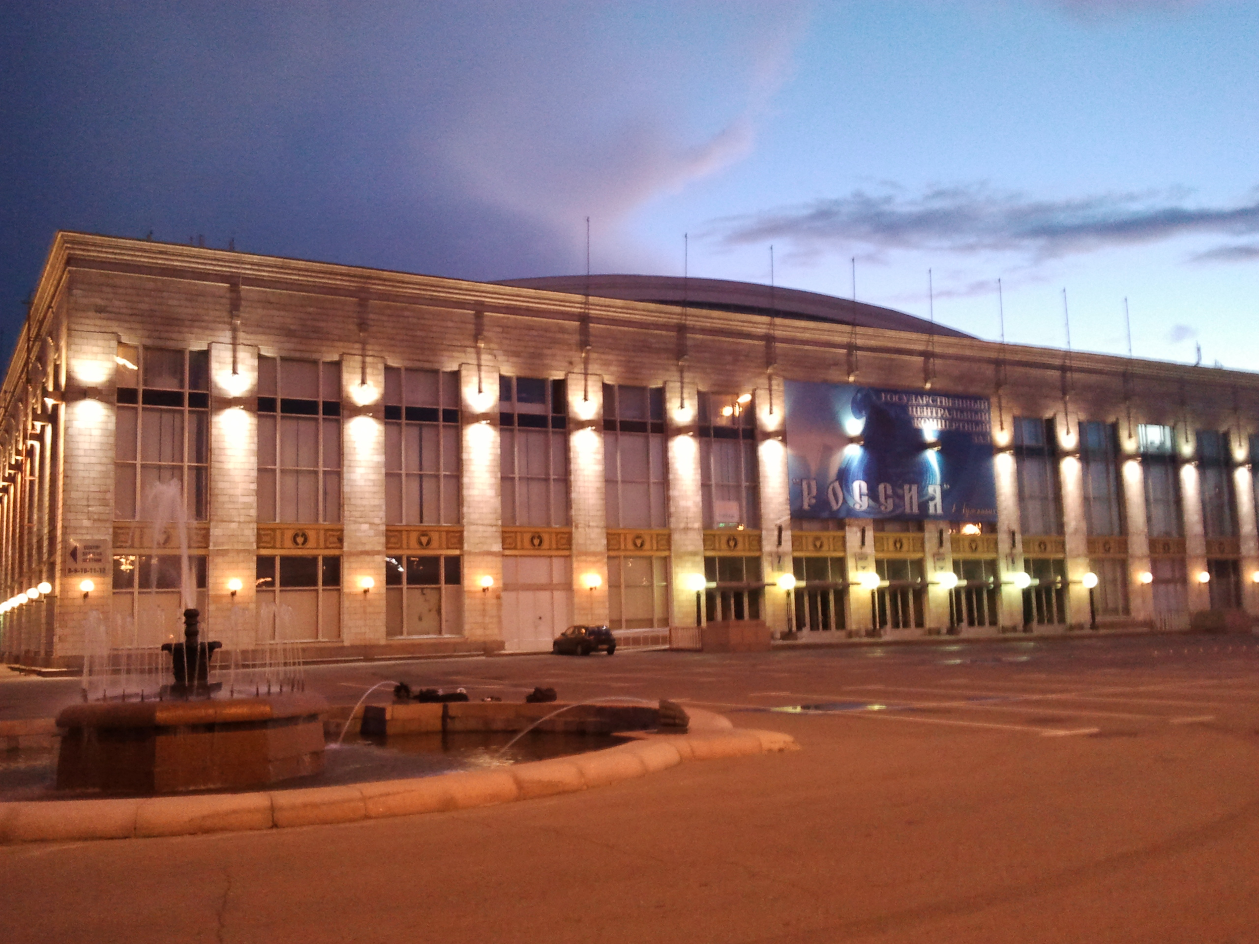 Concert Hall in Luzhniki (Moscow)